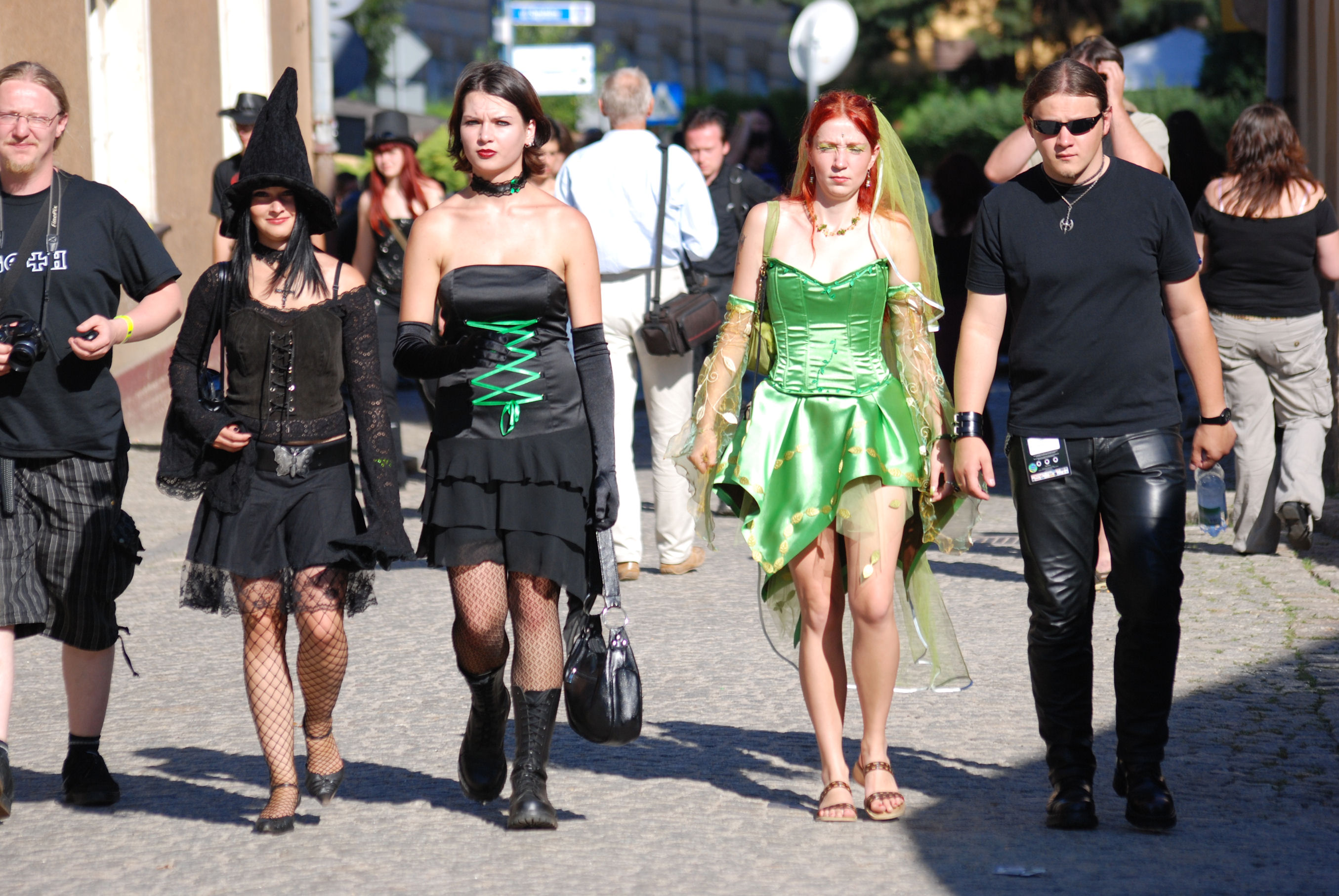 Castle Party 2008